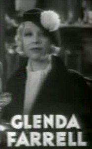 Cropped screenshot of Glenda Farrell from the trailer for the film The Keyhole